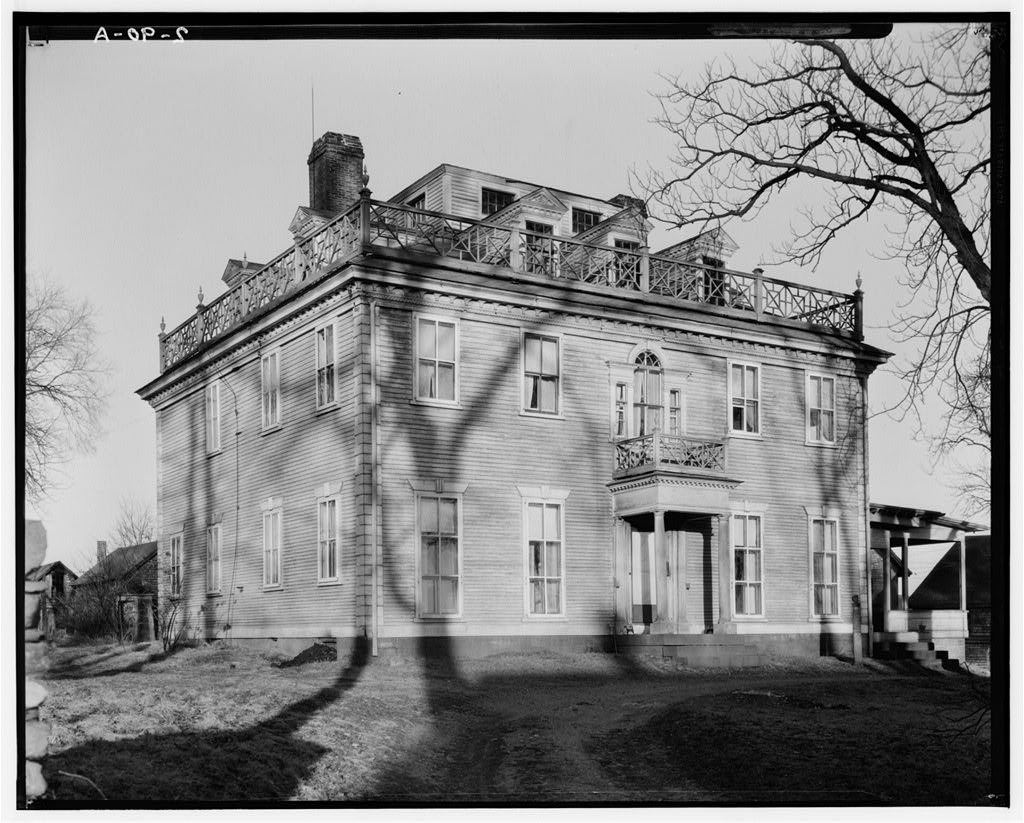 Simeon Martin House Seekonk Historic American Buildings Survey 1935.